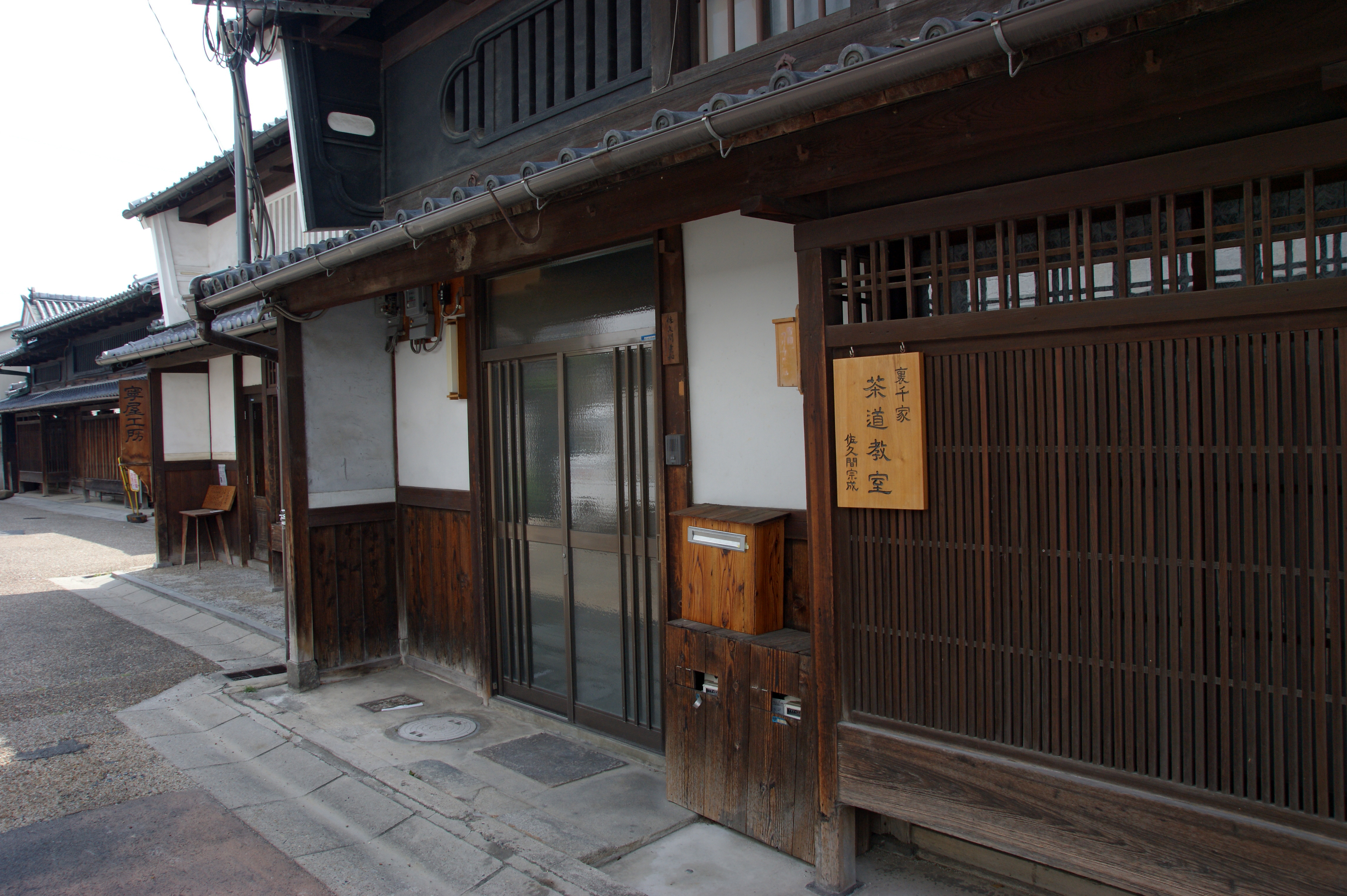 Naramachi in Nara, Nara prefecture, Japan